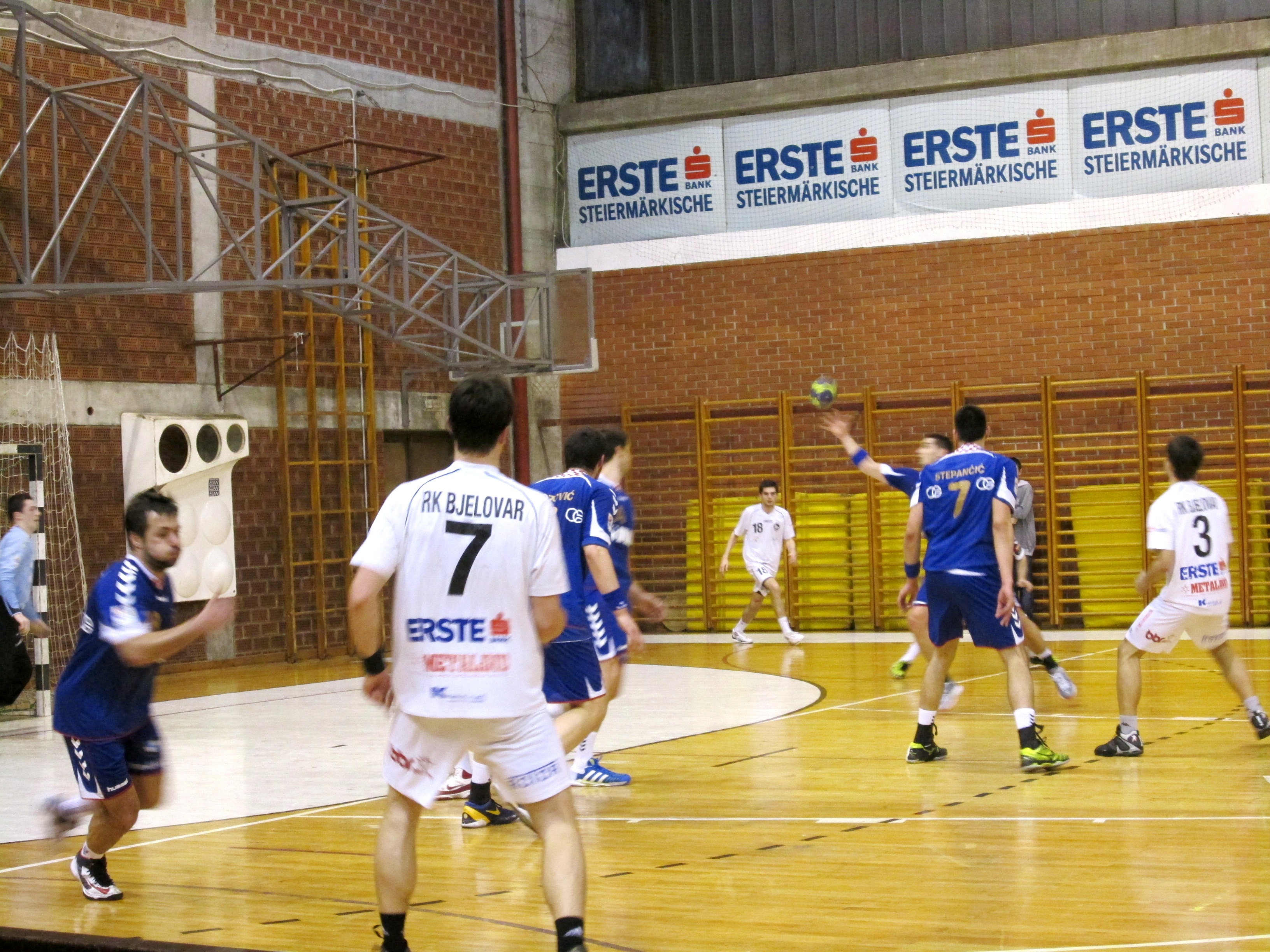 Handball game in Bjelovar, Croatia